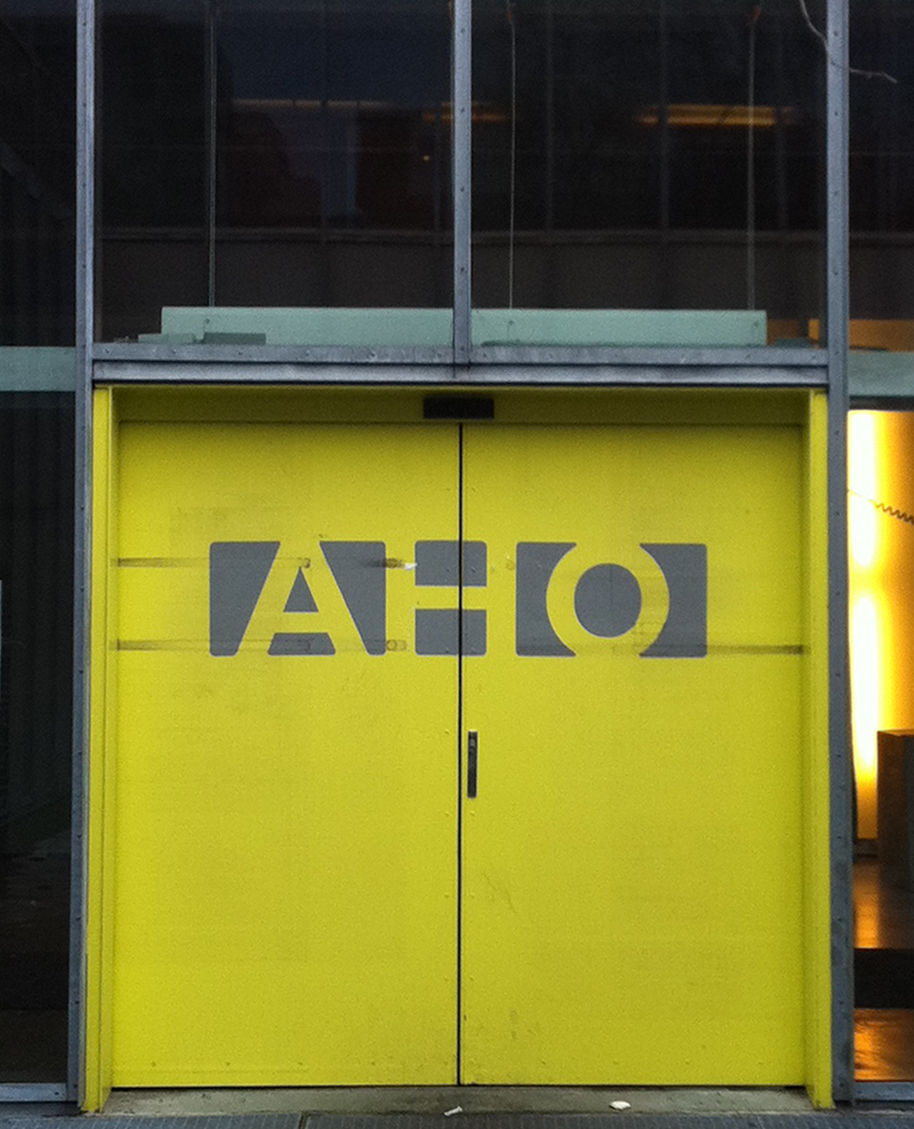 The logo of The Oslo School of Architecture and Design (Norway) as shown on their entrance door.